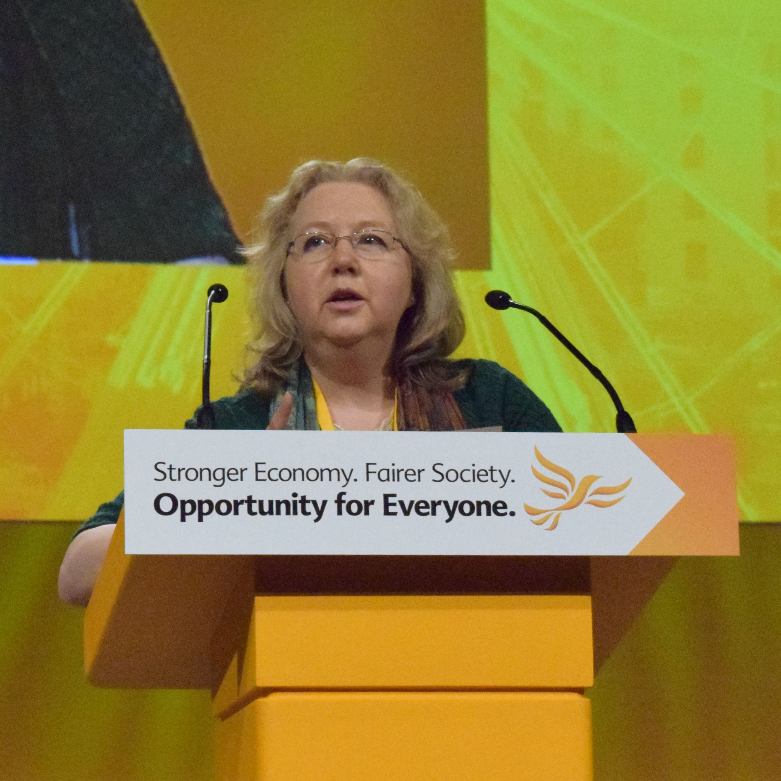 Baroness Grender speaking at a Liberal Democrat conference in the ACC, Liverpool.